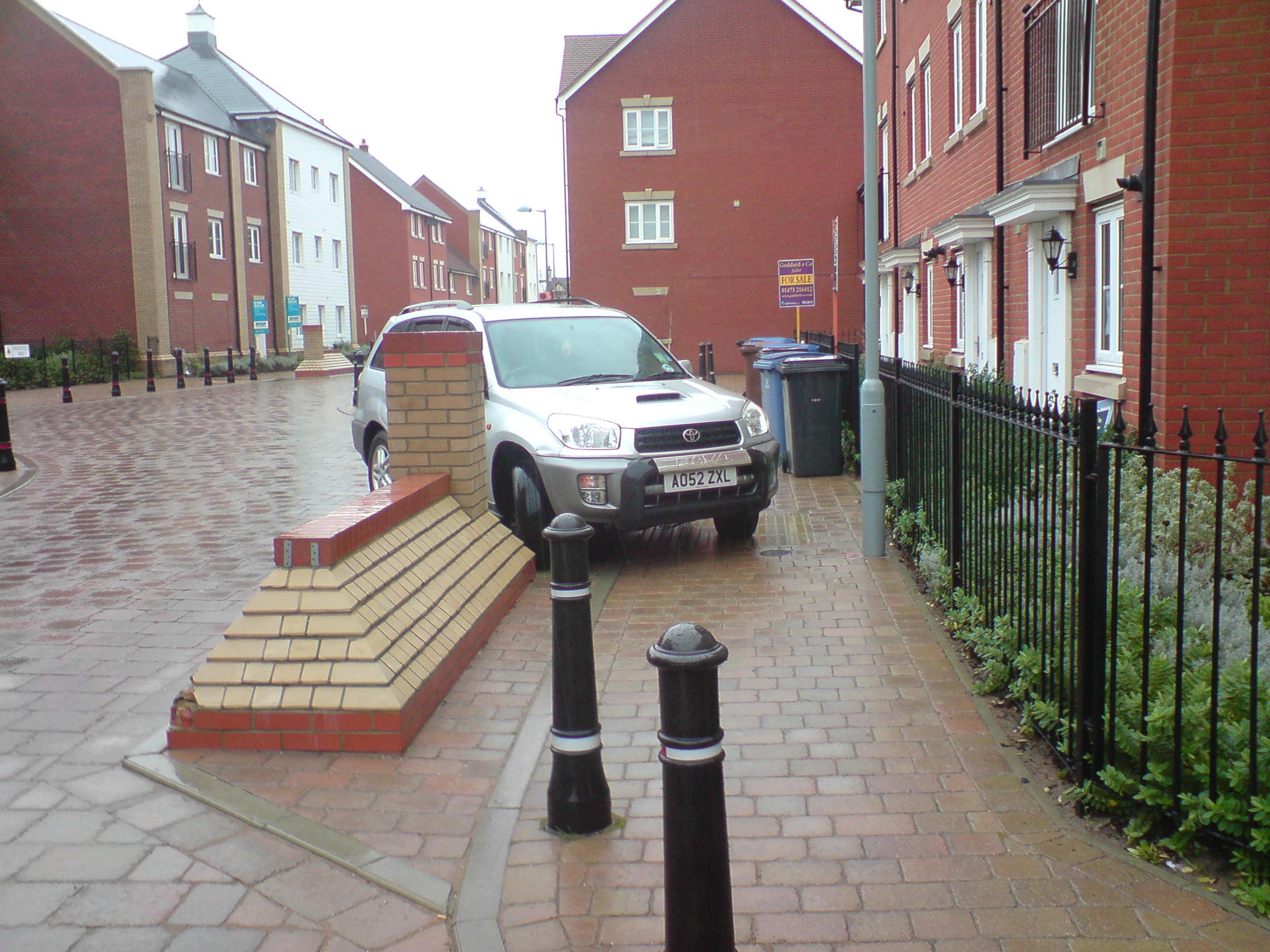 Bollards to stop parked cars from obstructing the pavement with car